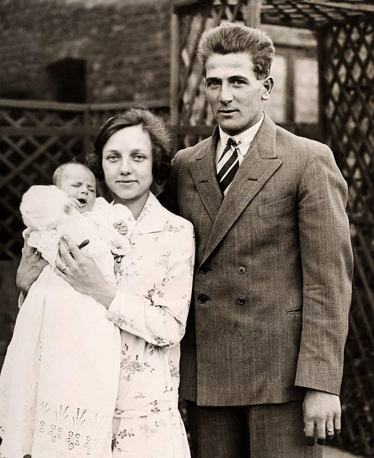 The Nottinghamshire fast bowler Harold Larwood with his wife Lois and baby daughter June in the grounds of his home in East Kirkby, circa 1928.